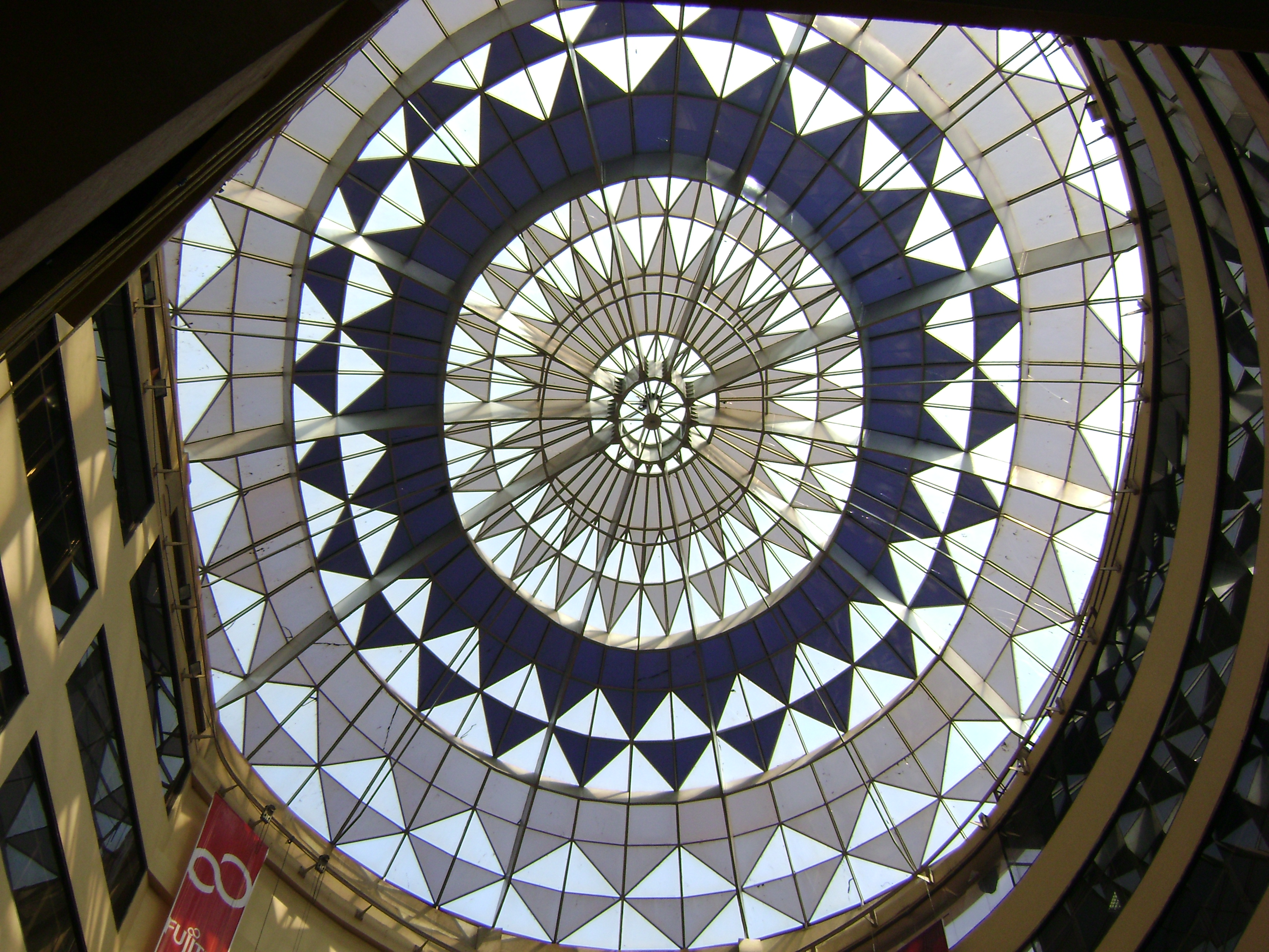 Glass roof at the third phase of Spencer Plaza, Chennai